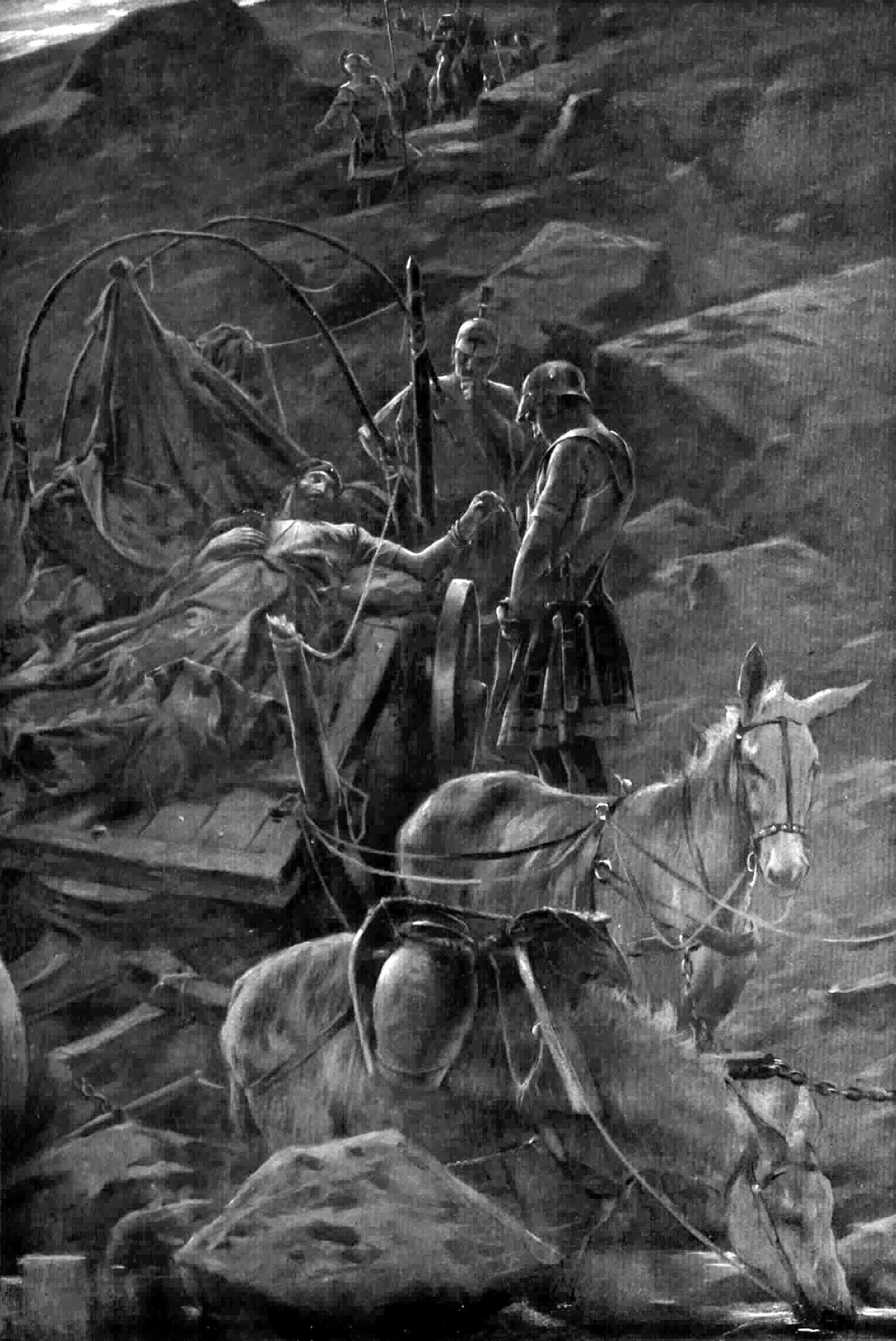 This is new version of File:The_death_of_Darius_by_Andre_Castaigne_(1898-1899).jpg. This file have been cropped and brighten.